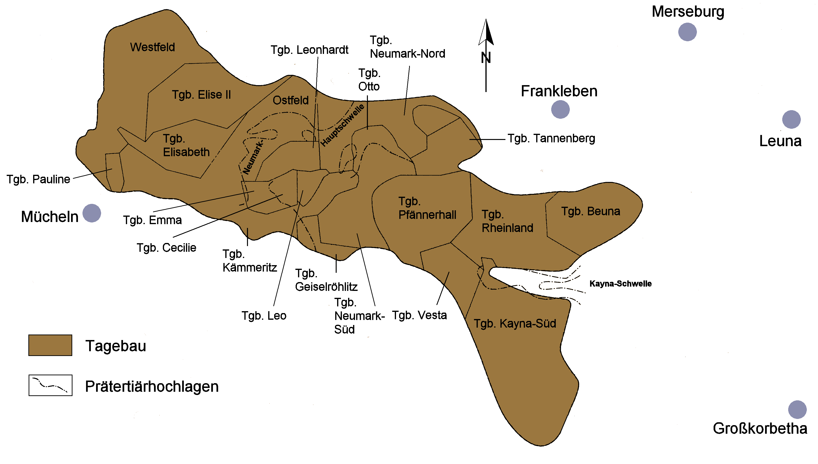 Mining area of the Geiseltal after: Matthias Thomae and Ivo Rappsilber: Zur Entstehung der Geiseltalsenke. In: Harald Meller (ed.): Elefantenreich - Eine Fossilwelt in Europa. Halle/Saale, 2010, pp. 27–33 (p. 28)